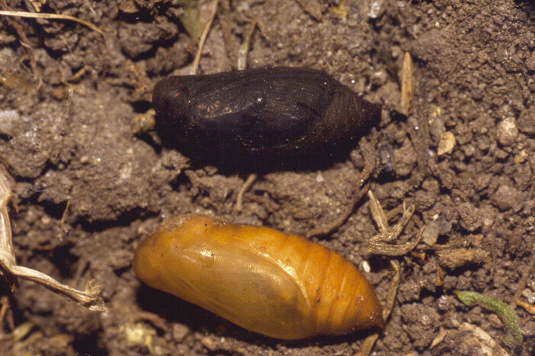 Scotch Argus (Erebia aethiops) chrysalis